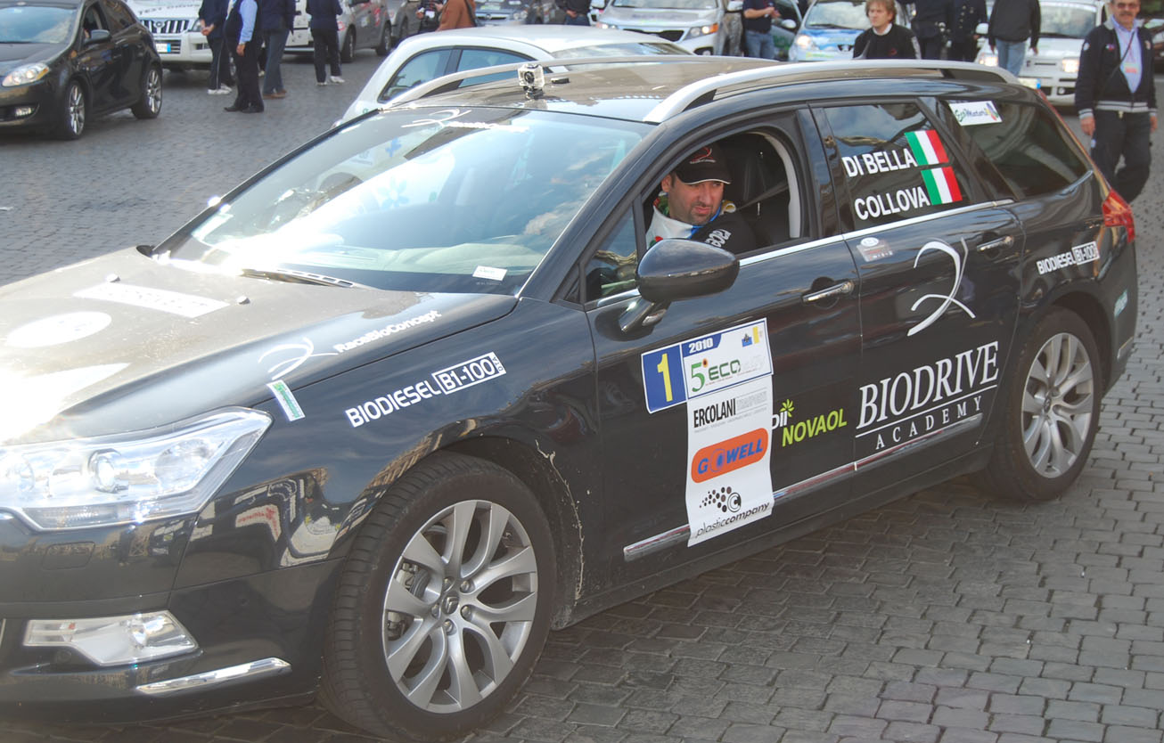 Rally driver Vincenzo Di Bella after the 2010 Ecorally San Marino - Città del Vaticano. Vatican City, October 24, 2010.